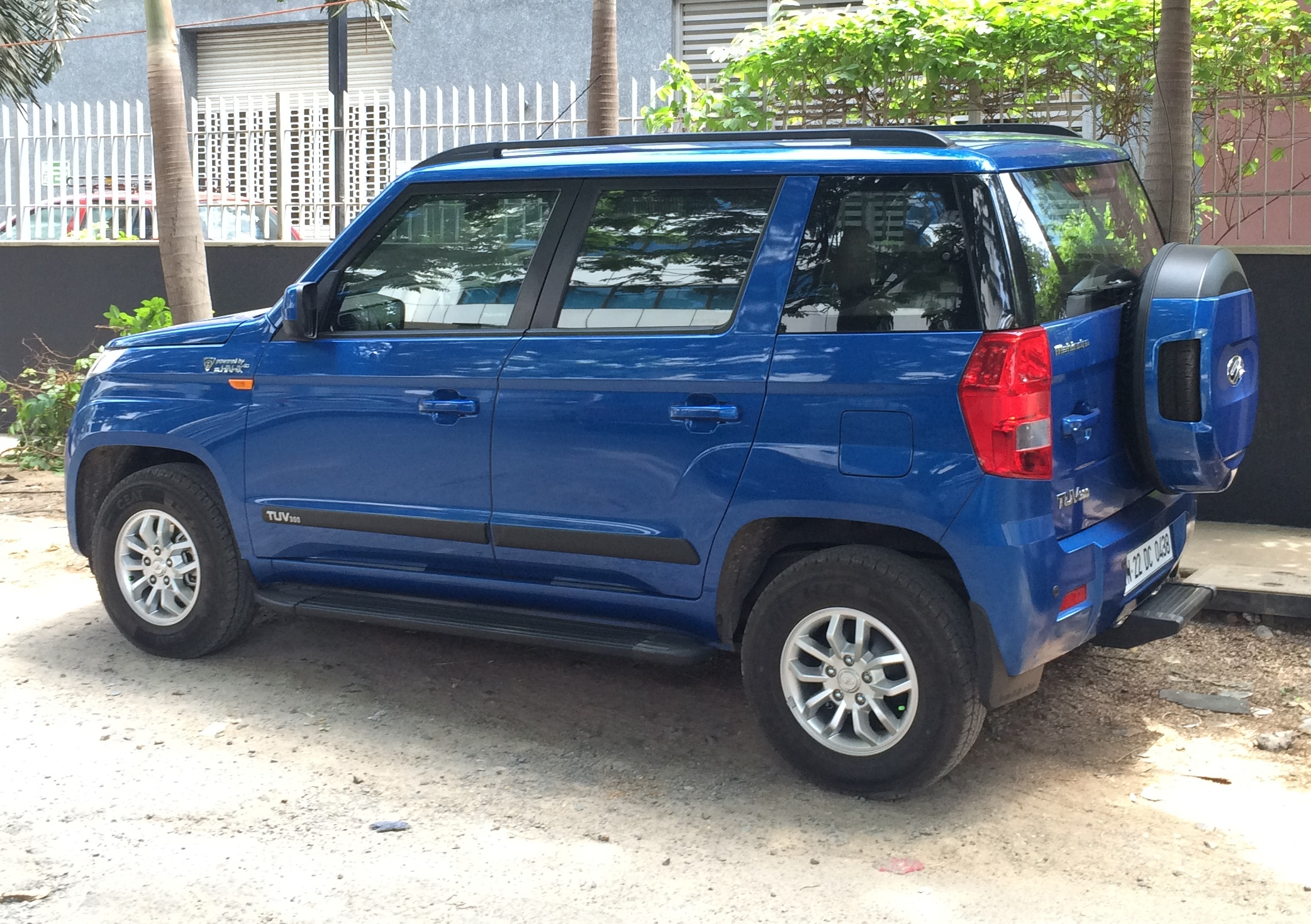 Mahindra TUV 300 in Chennai, 2016